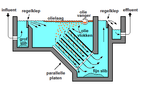 I am the author and I drew this diagram myself using Microsoft's Paint program. This image depicts a parallel plate oil-water separator used in industrial wastewater treatment. - mbeychok 19:20, 24 August 2007 (UTC)